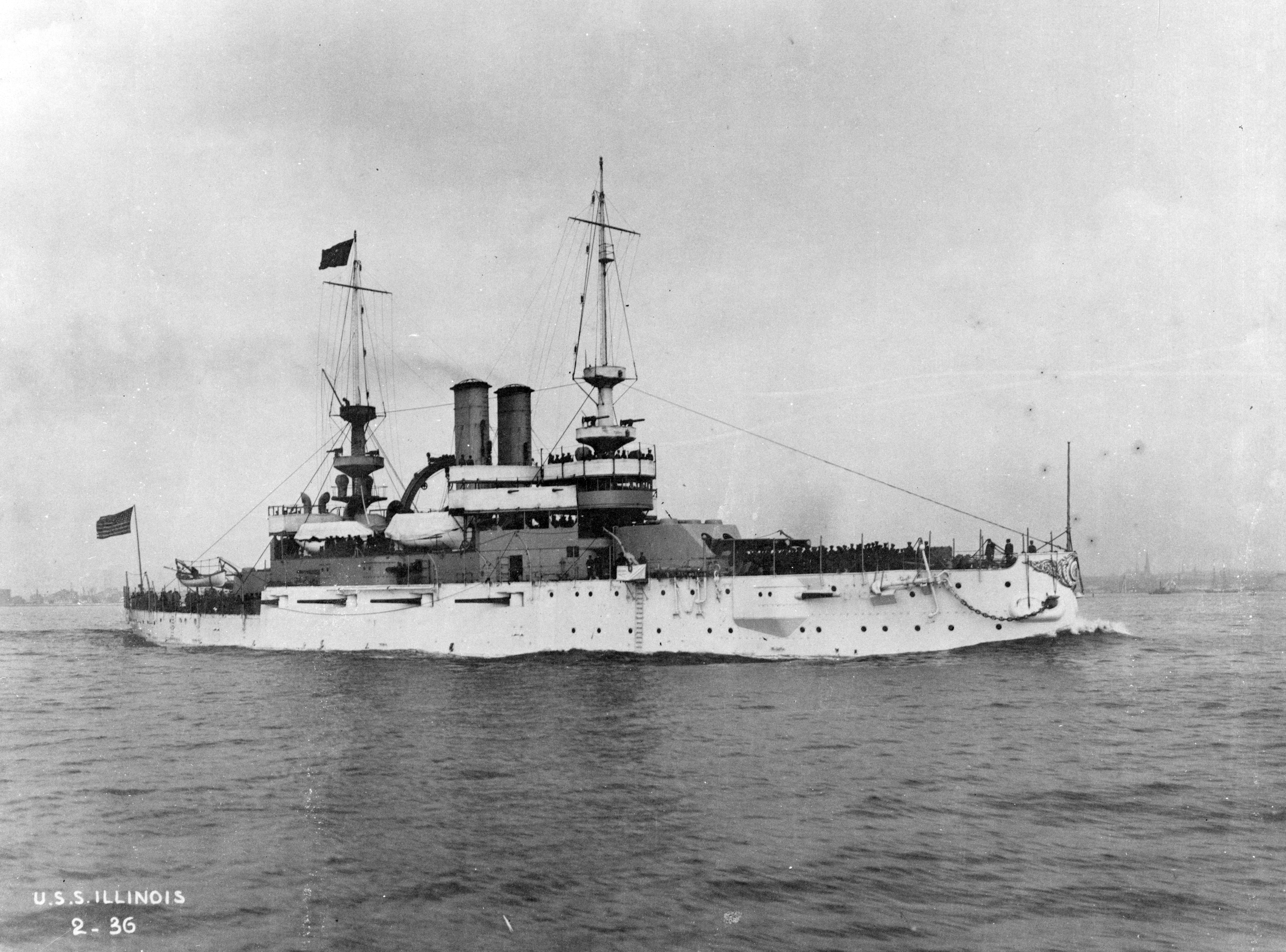 (Battleship # 7) Underway in harbor, circa 1901-1907. Courtesy of the Naval Historical Foundation, Washington, D.C. U.S. Naval History and Heritage Command Photograph.